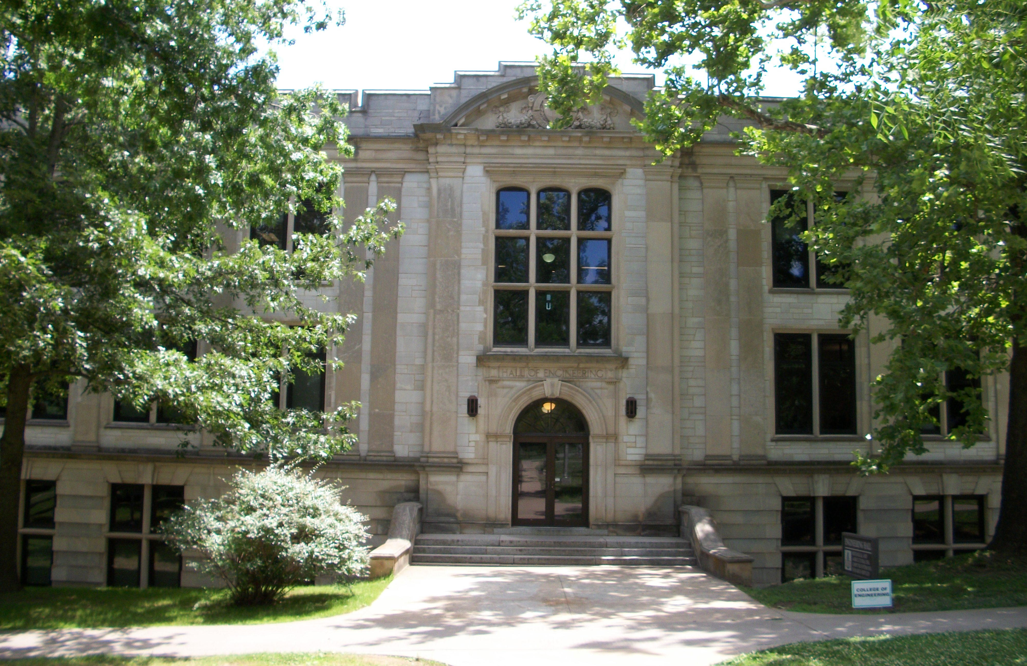 Engineering Hall at the University of Arkansas. It is part of the Campus Historic district listed on the National Register of Historic Places.